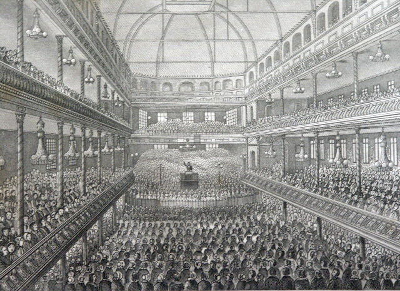 From Spurgeon's Sermons Fifth Series; Sheldon & Co. 1858. At Surrey Music Hall, Kennington.